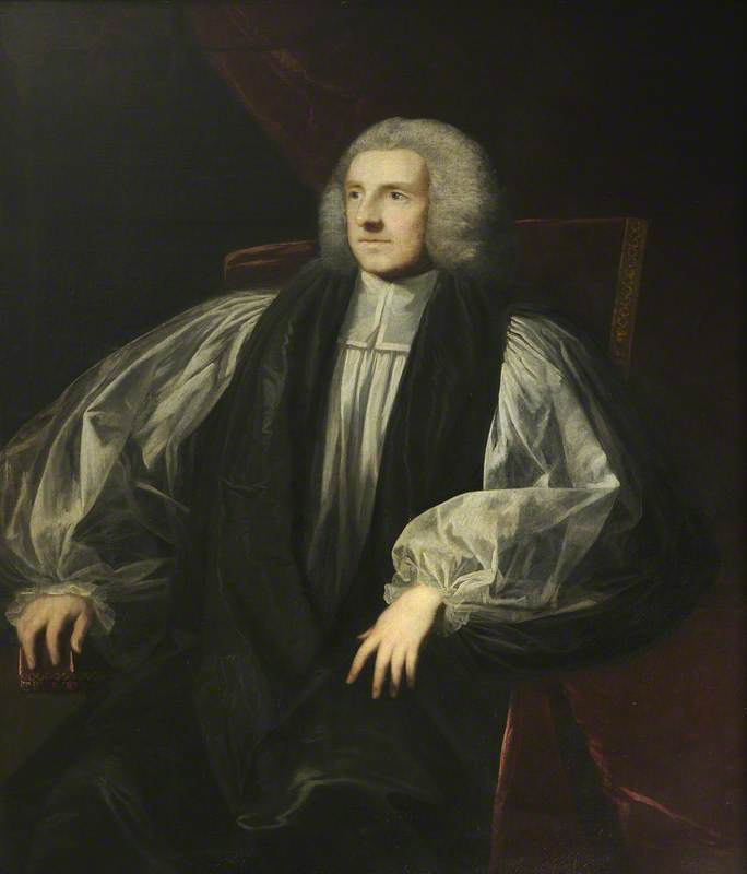 Richard Robinson, 1st Baron Rokeby (1709-1794), Archbishop of Armagh